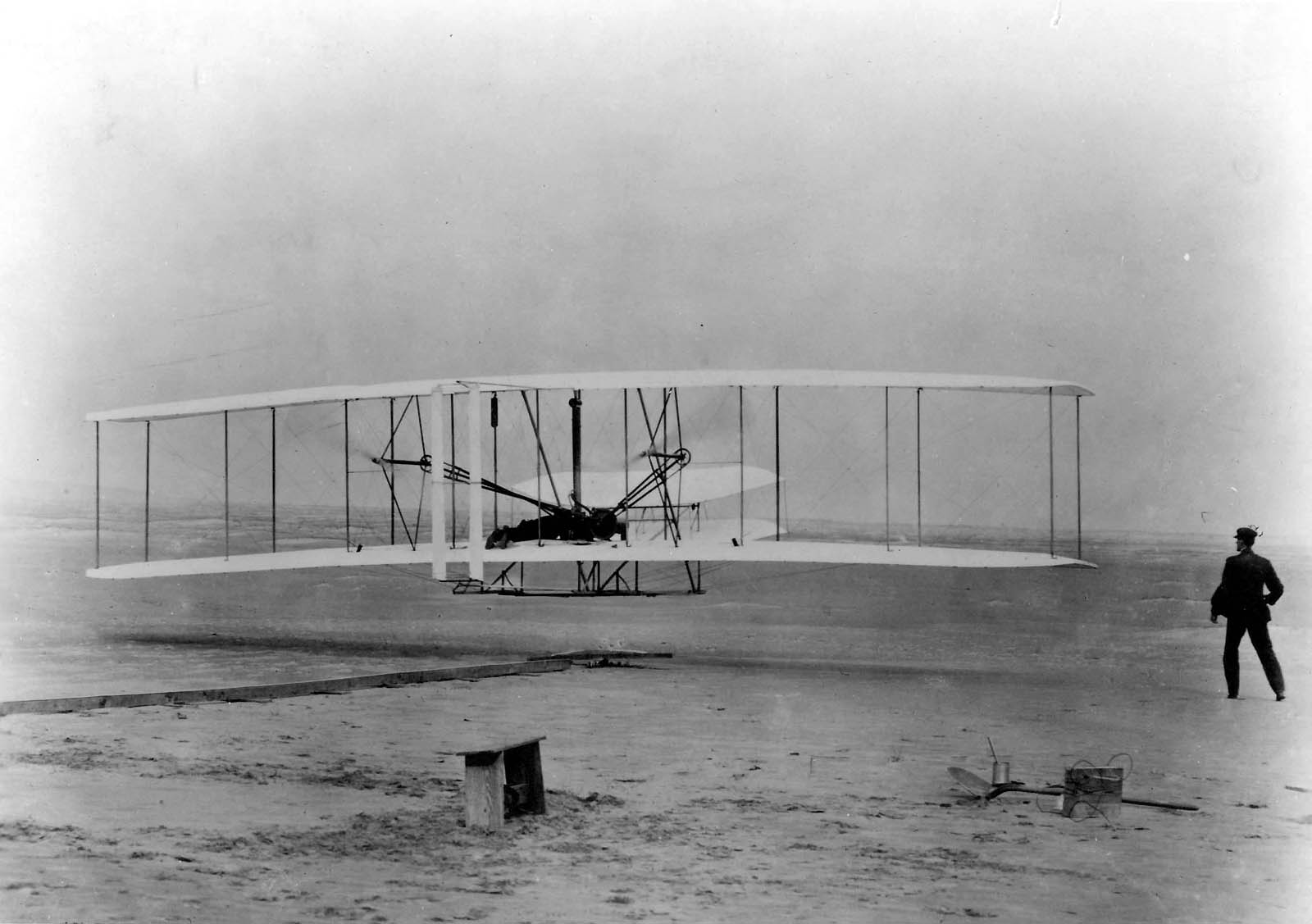 KITTY HAWK, NC -- The first sustained flight with a powered, controlled aircraft. Orville Wright at controls. Distance, 120 feet. Time, 12 seconds